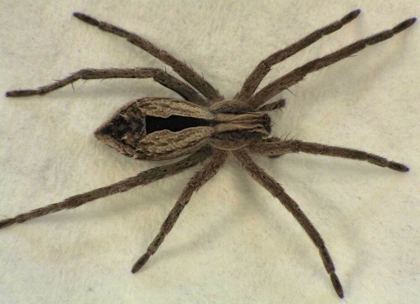 Argoctenus sp. (live subadult female)